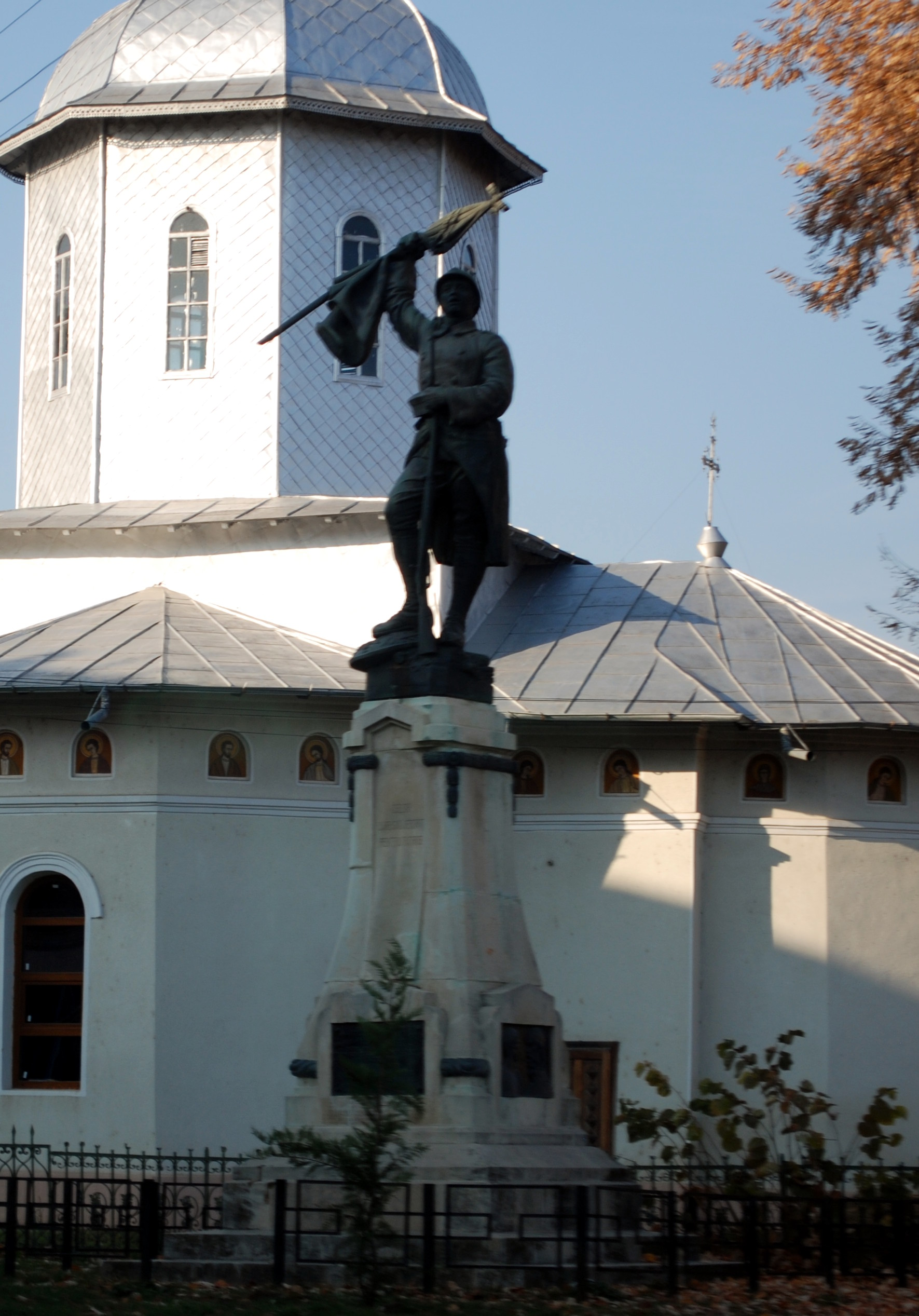 The monument in Pătârlagele, Buzău, Romania